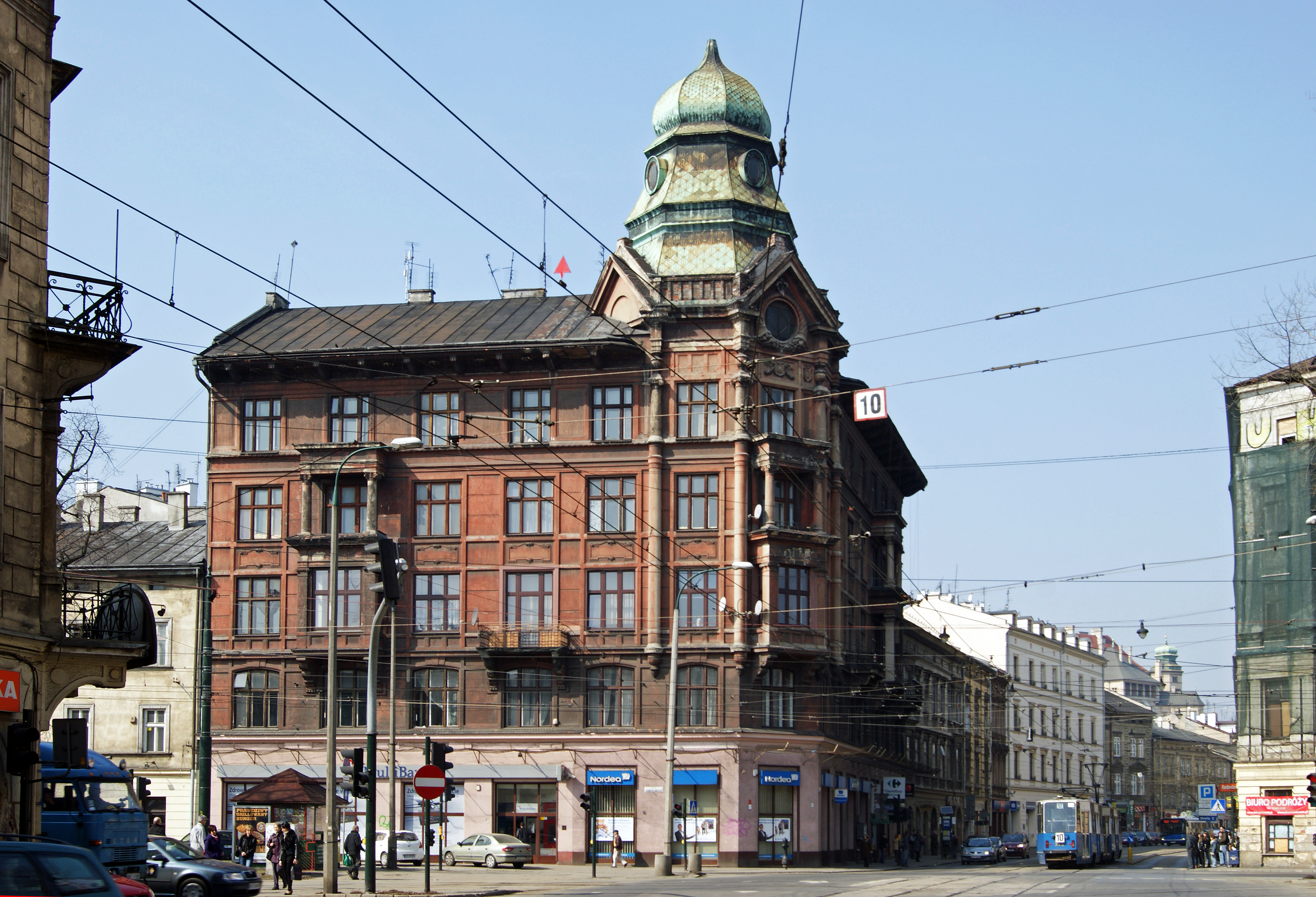 Ohrenstein's tenement, 42 Dietla street, Stradom, Krakow, Poland